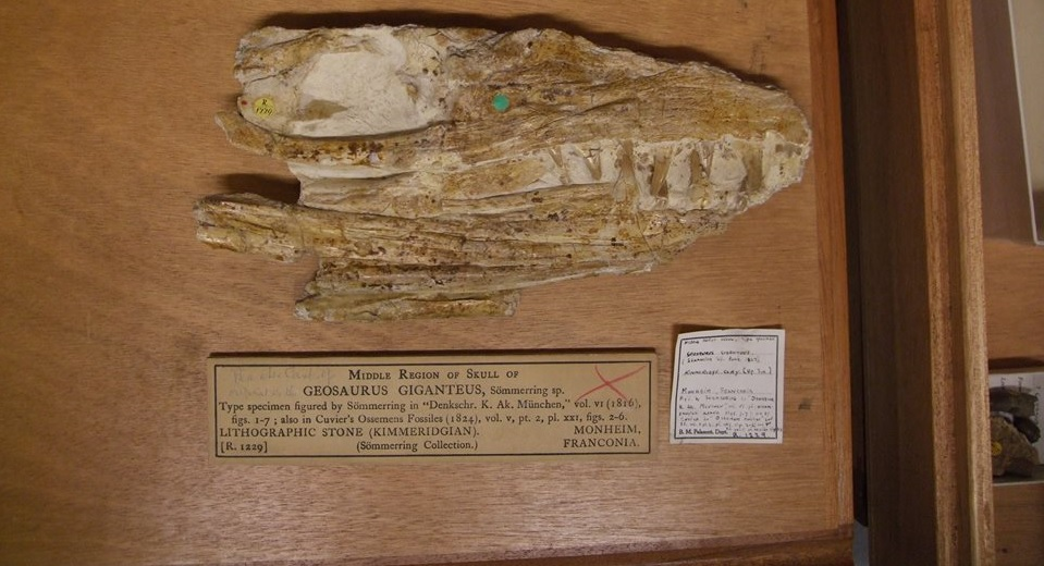 Holotype skull of Geosaurus giganteus at the collection of the Natural History Museum London.